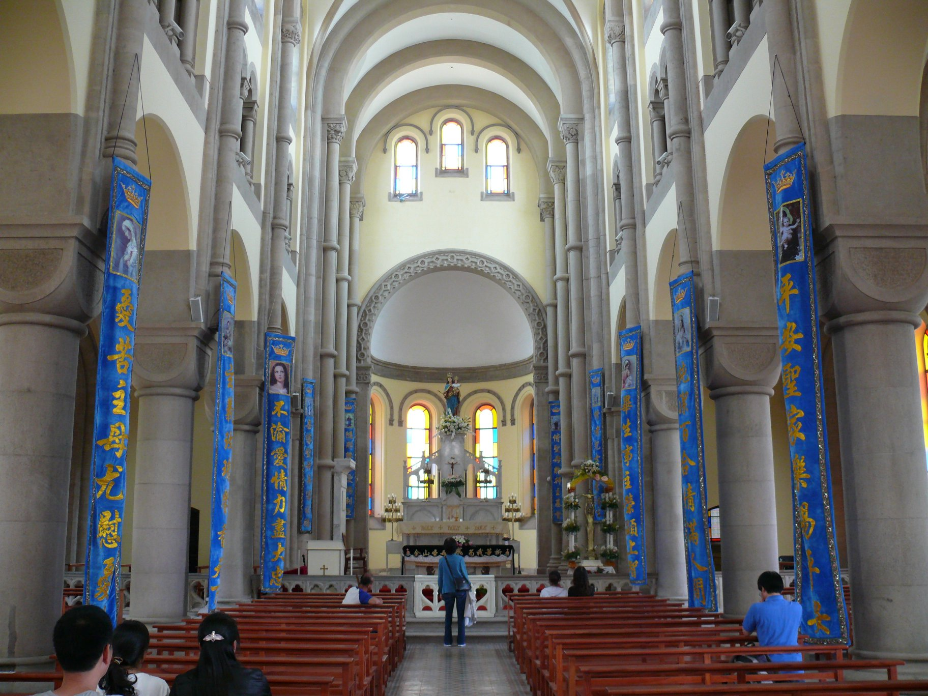 The basilica of Our Lady of She Shan, in Shanghai (China).